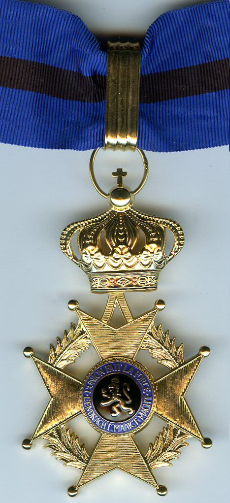 Commander of the Order of Leopold II (Belgium)